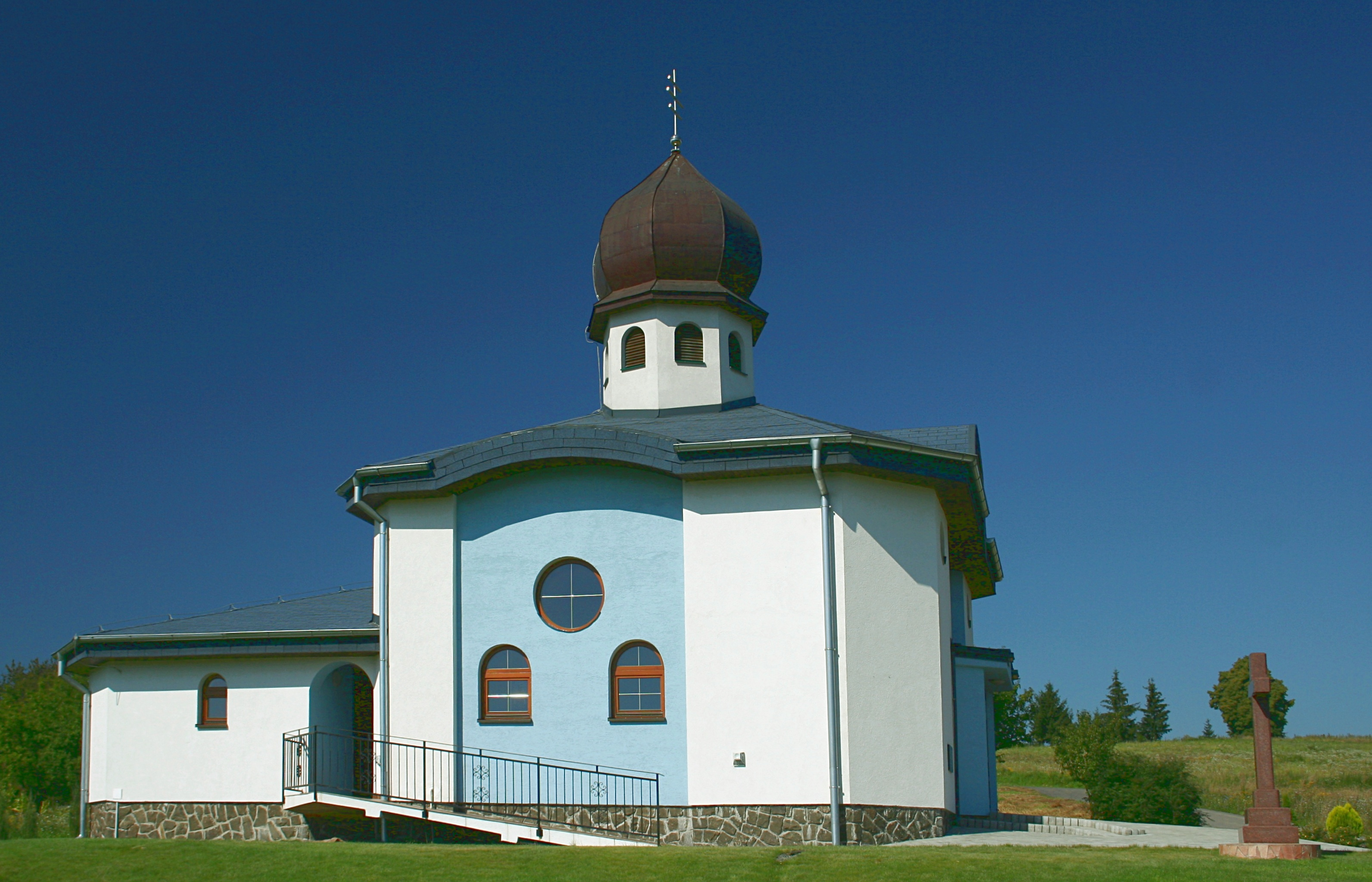 cerkiew in Topoľovka, Slovakia